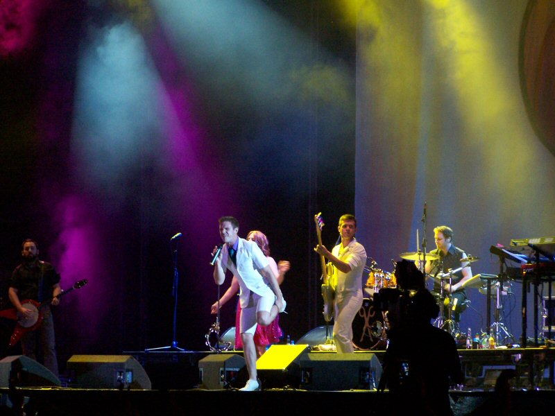 Scissor Sisters - live concert - at Super Bock Super Rock Festival (Portugal)